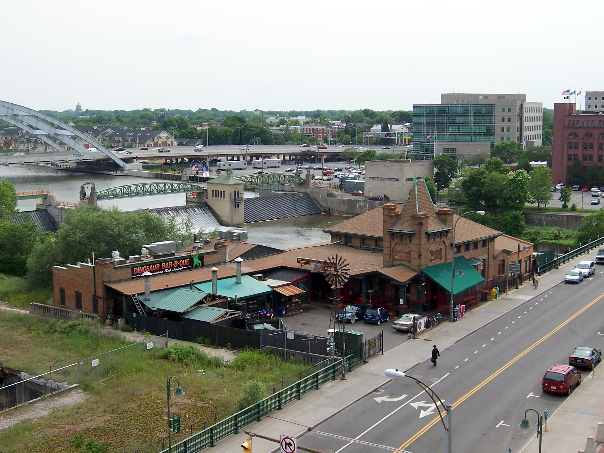 The Dinosaur Bar-B-Que restaurant in Rochester, New York. It is housed in the former Lehigh Valley Railroad Station buildings. The Genesee River runs through the background of the picture, including over the Court Street Dam. Interstate 490 runs from the left edge to the middle of the image in the background, with the Frederick Douglass – Susan B. Anthony Memorial Bridge on the left. Part of the Court Street Bridge can be seen disappearing off the right edge of the image. The Court–Exchange Building is the brick building in the background on the right. The grassy area in the bottom left corner hides a tunnel through which the Erie Canal once flowed.